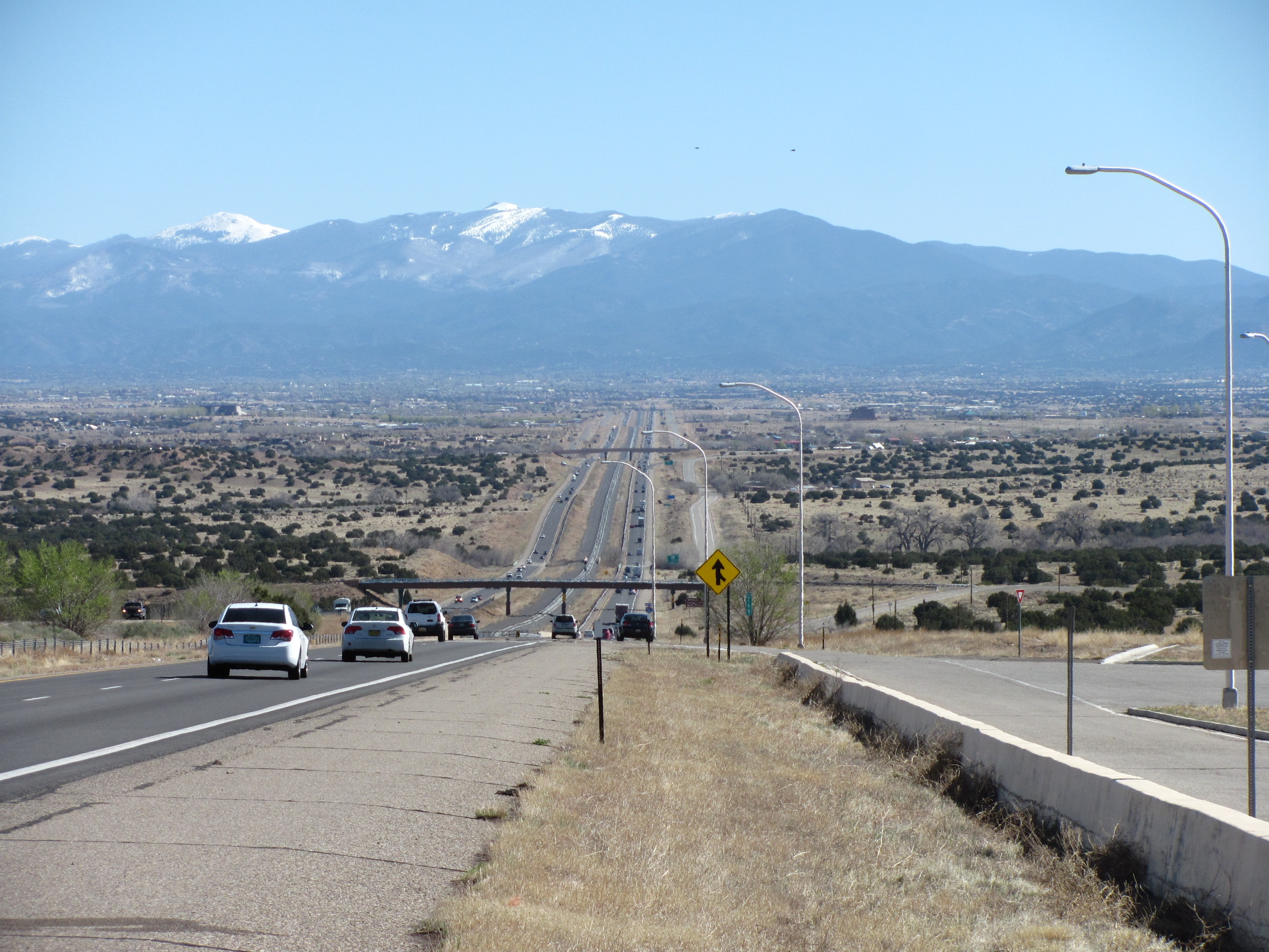 Interstate 25 approaching Santa Fe, Santa Fe County New Mexico